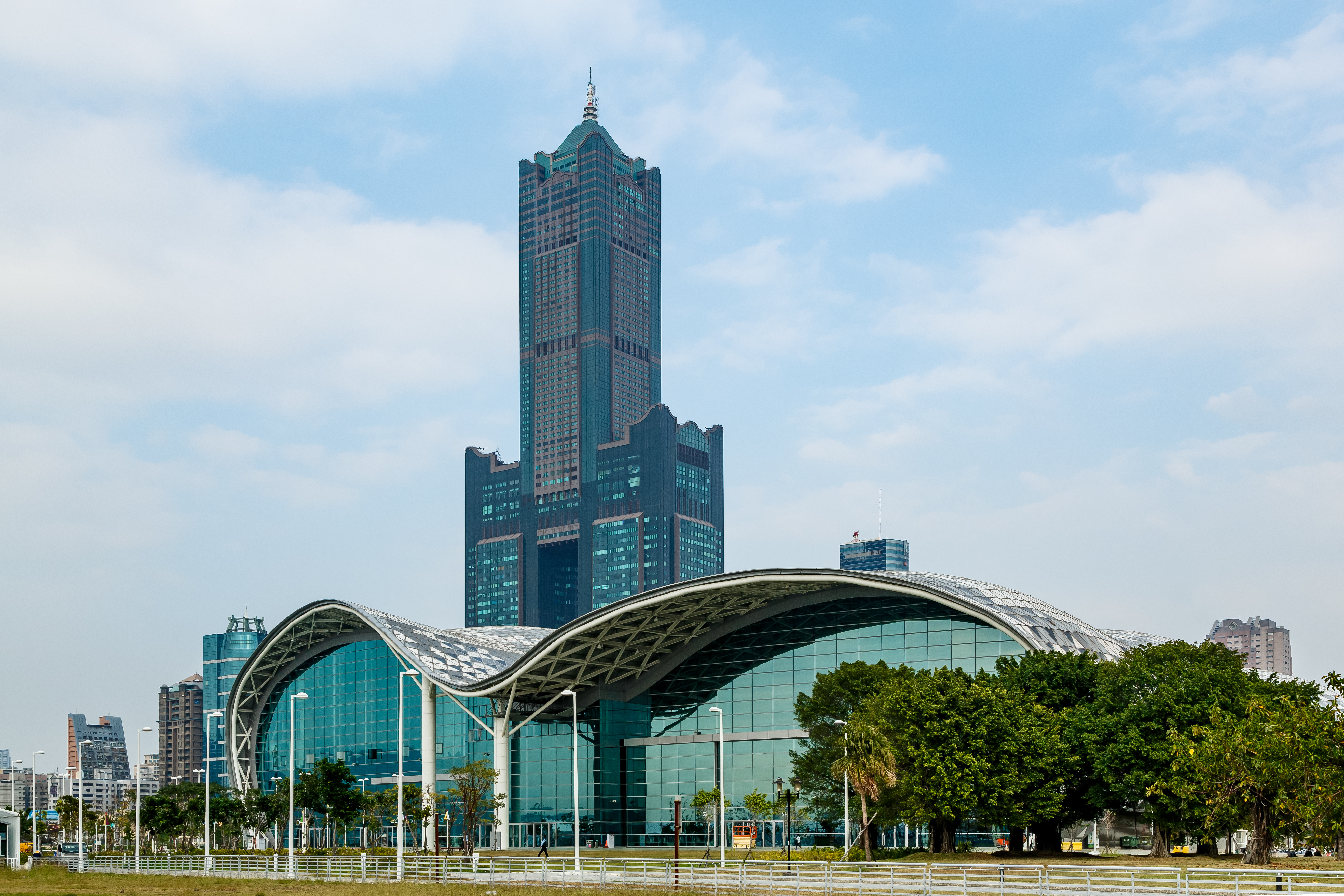 Kaohsiung, Taiwan: Waterfront side of Kaohsiung Exhibition center. Behind, the Kaohsiung 85 Building also known as Tuntex Sky Tower.